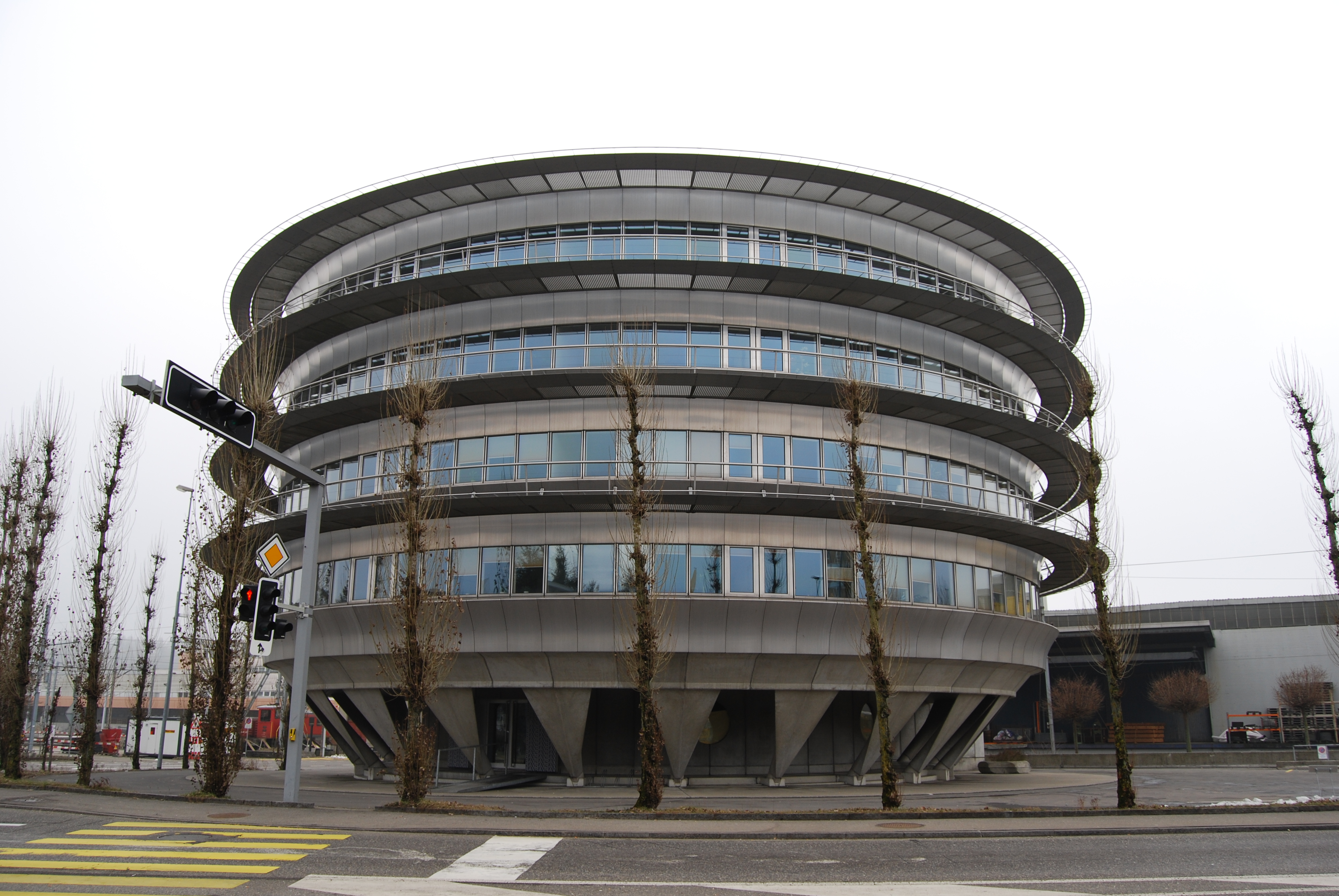 Roundhouse by Calatrava at Suhr, canton of Aargau, Switzerland